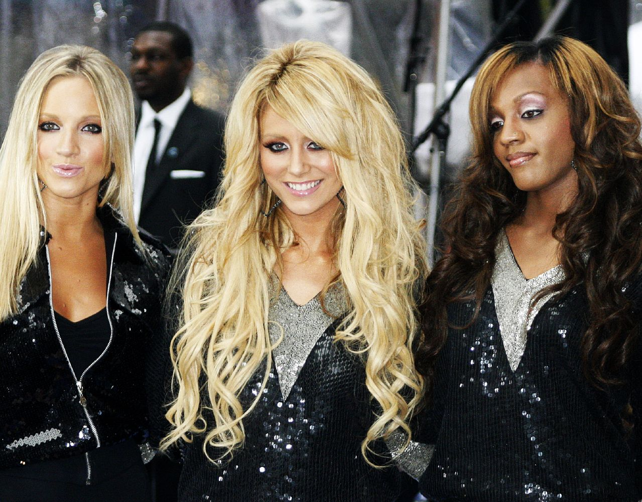 Three members of band Danity Kane, from left to right, Shannon Bex, Aubrey O'Day, and Dawn Richard